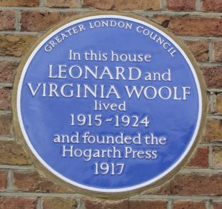 Blue plaque for Leonard and Virginia Woolf, founders of Hogarth Press in Richmond, London, UK. Taken by Mark Barker